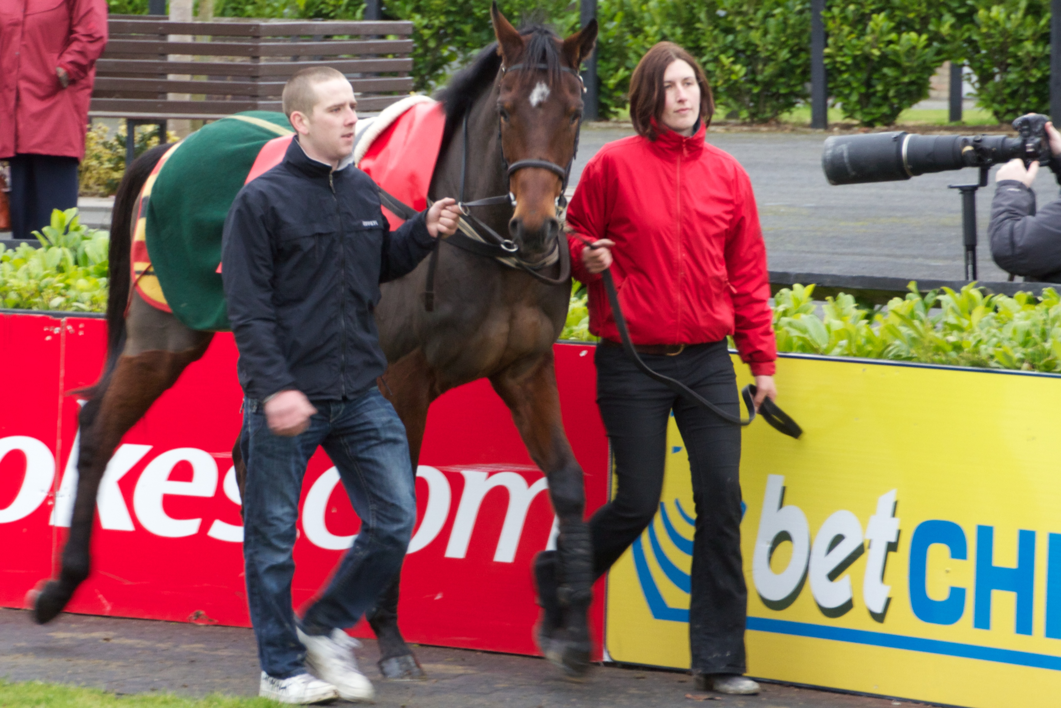 Hurricane fly, and his 2 handlers pre race in November 2012 at Punchestown.